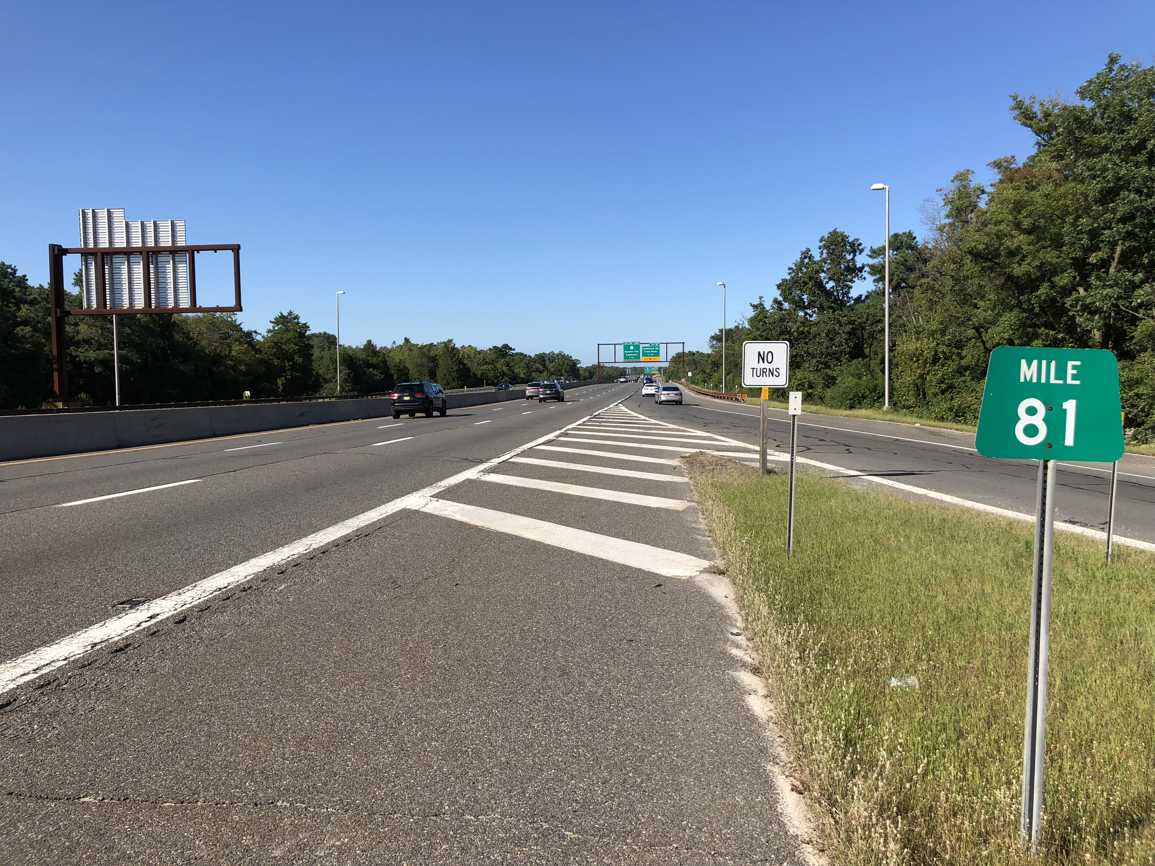 View north along New Jersey State Route 444 (Garden State Parkway) where it merges with northbound U.S. Route 9 in South Toms River, Ocean County, New Jersey